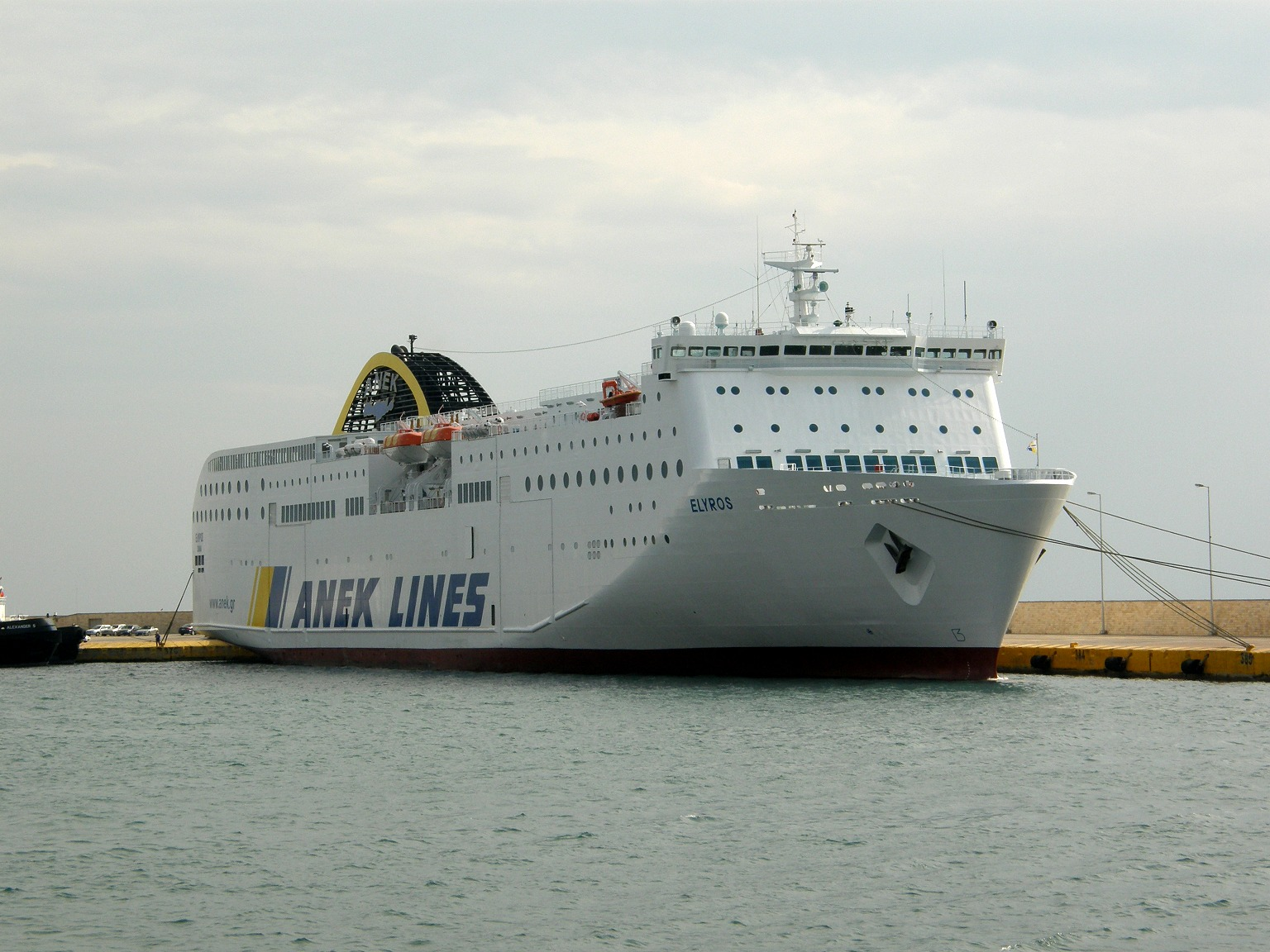 ANEK Lines F/B Elyros, SVOM, IMO 9178599, in Piraeus harbor.